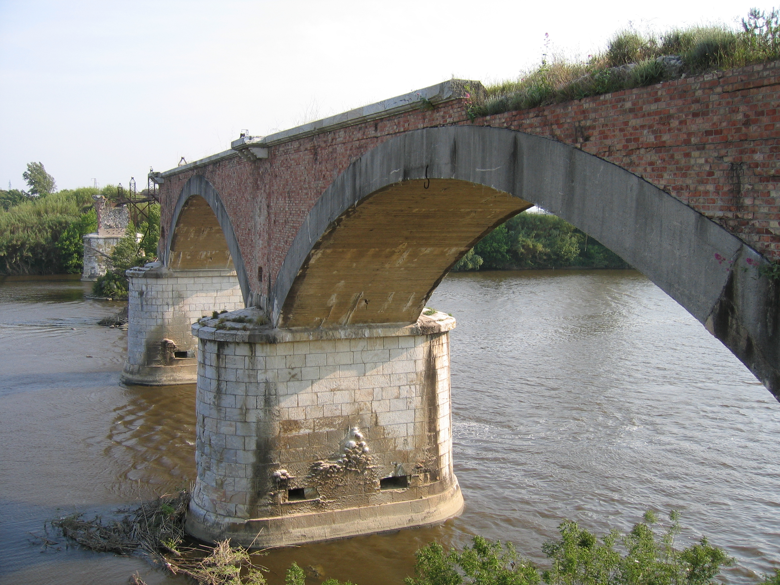 Calcinaia - The bridga's ruins (22+232)